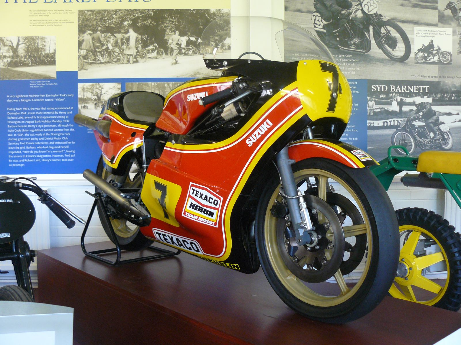 The great Barry Sheenes #7 Suzuki. Just needs the Donald Duck helmet to finish the picture.